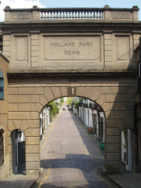 Arch entrance to Holland Park Mews The buildings in the mews were originally coach houses and stables for the grand houses in Holland Park; the stables had living quarters for servants above. Now many of the grand houses are divided into flats, and some of the most expensive dwellings are the mews houses. See Holland Park Living .